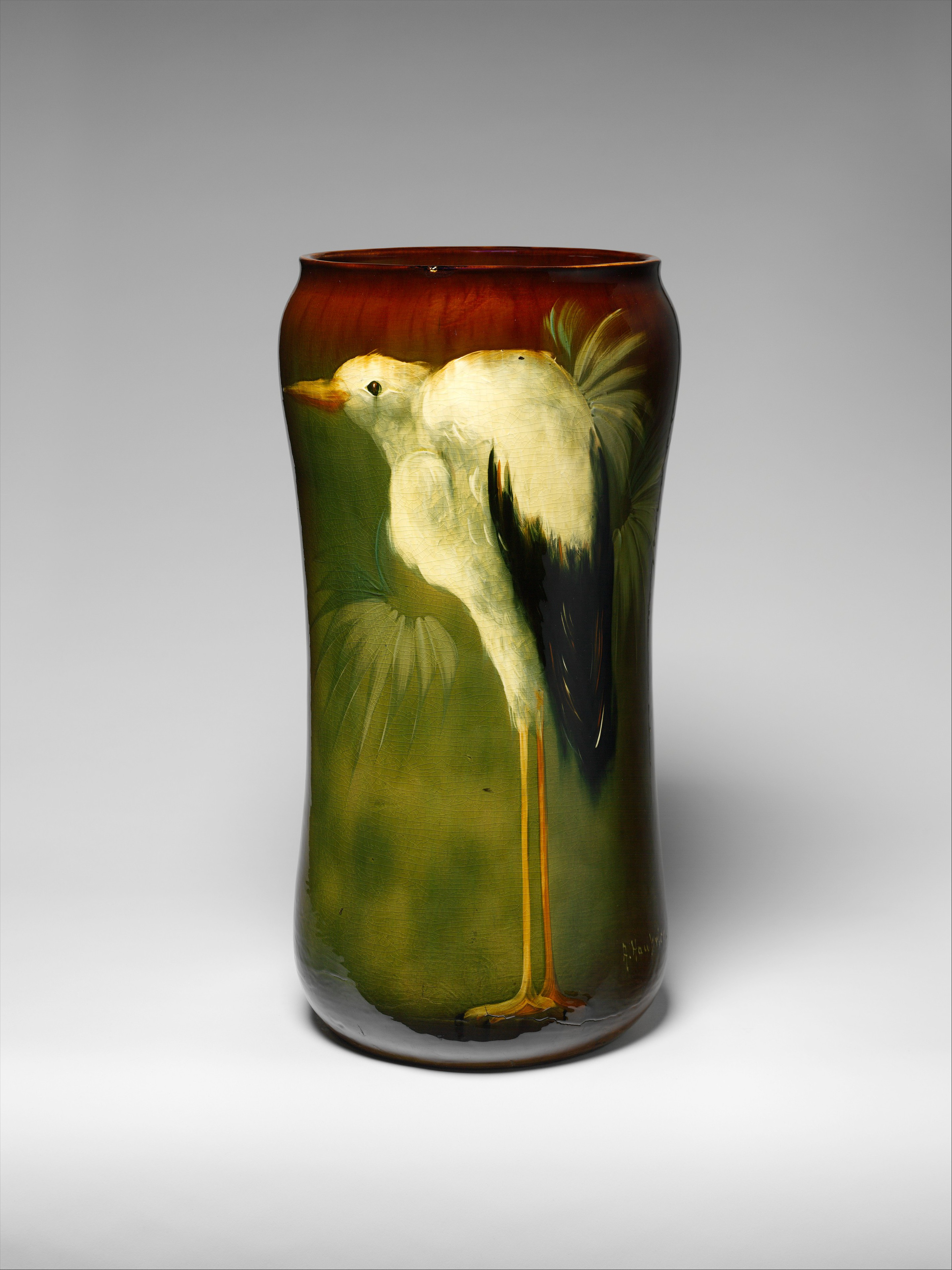 American; Umbrella stand; Ceramics